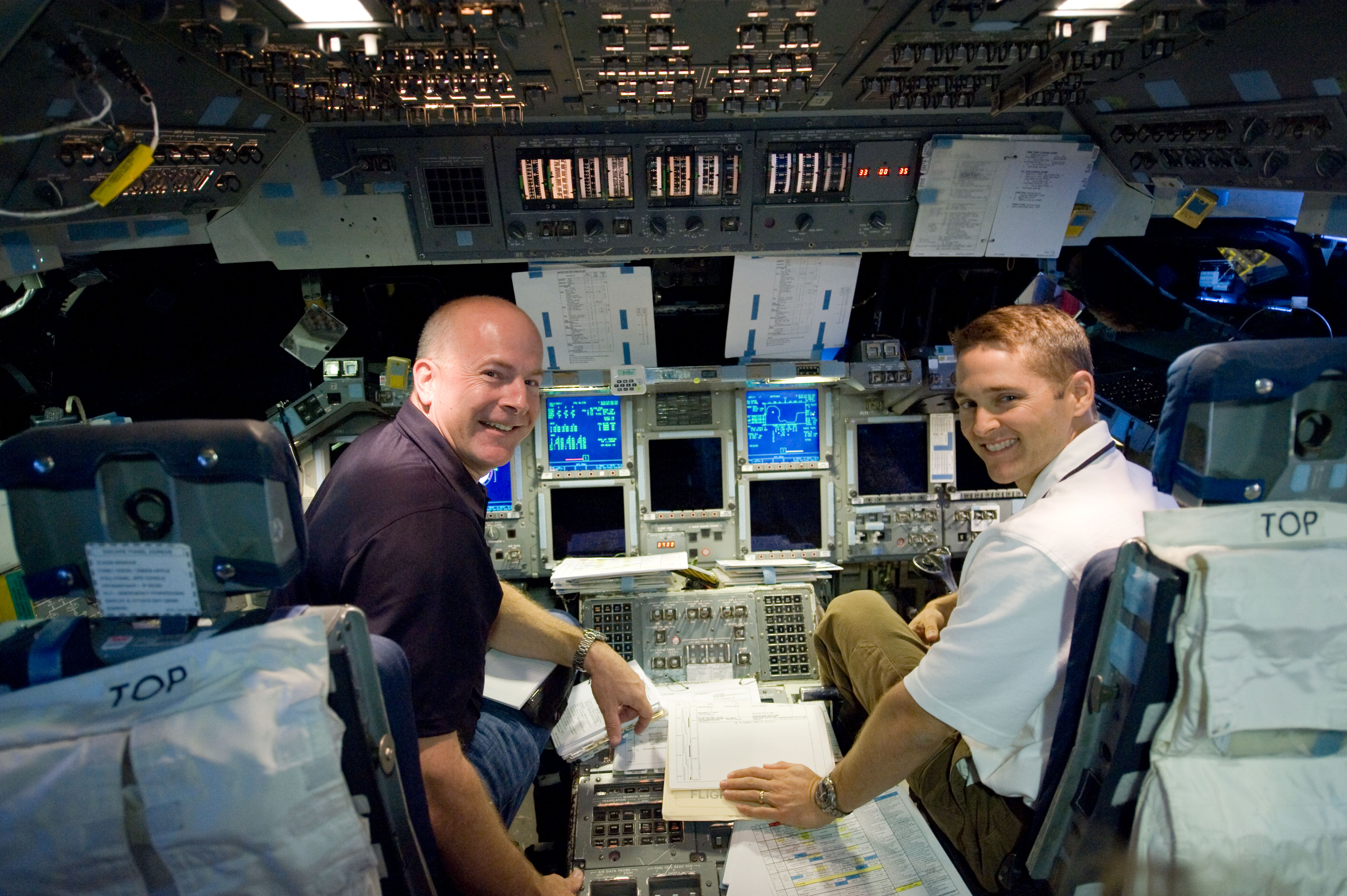 NASA astronauts Alan Poindexter (left) and James P. Dutton Jr., STS-131 commander and pilot, respectively, participate in a training session in the shuttle mission simulator (SMS) in the Jake Garn Simulation and Training Facility at NASA's Johnson Space Center.